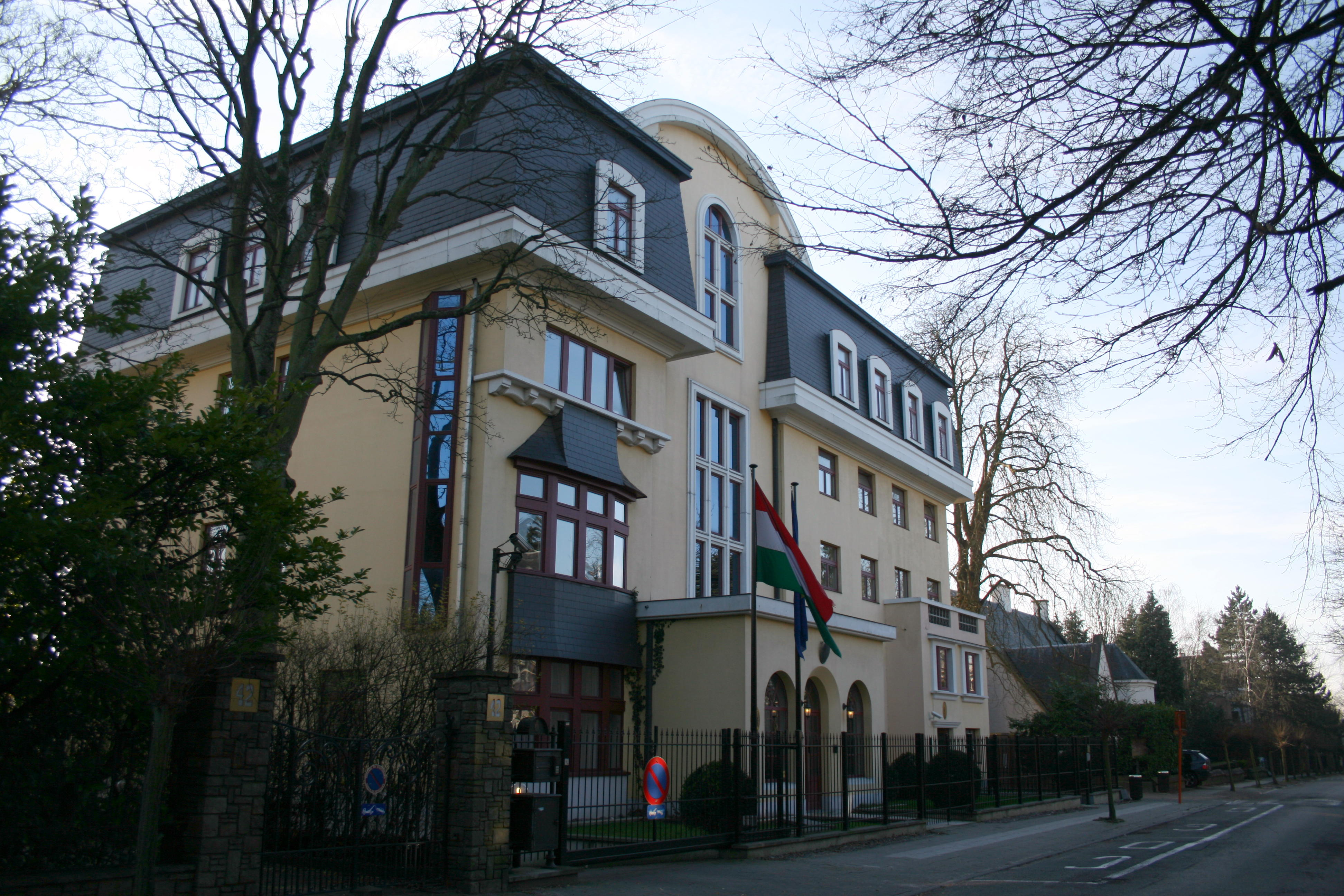 Embassy_of_Hungary_in_Brussels,_Belgium